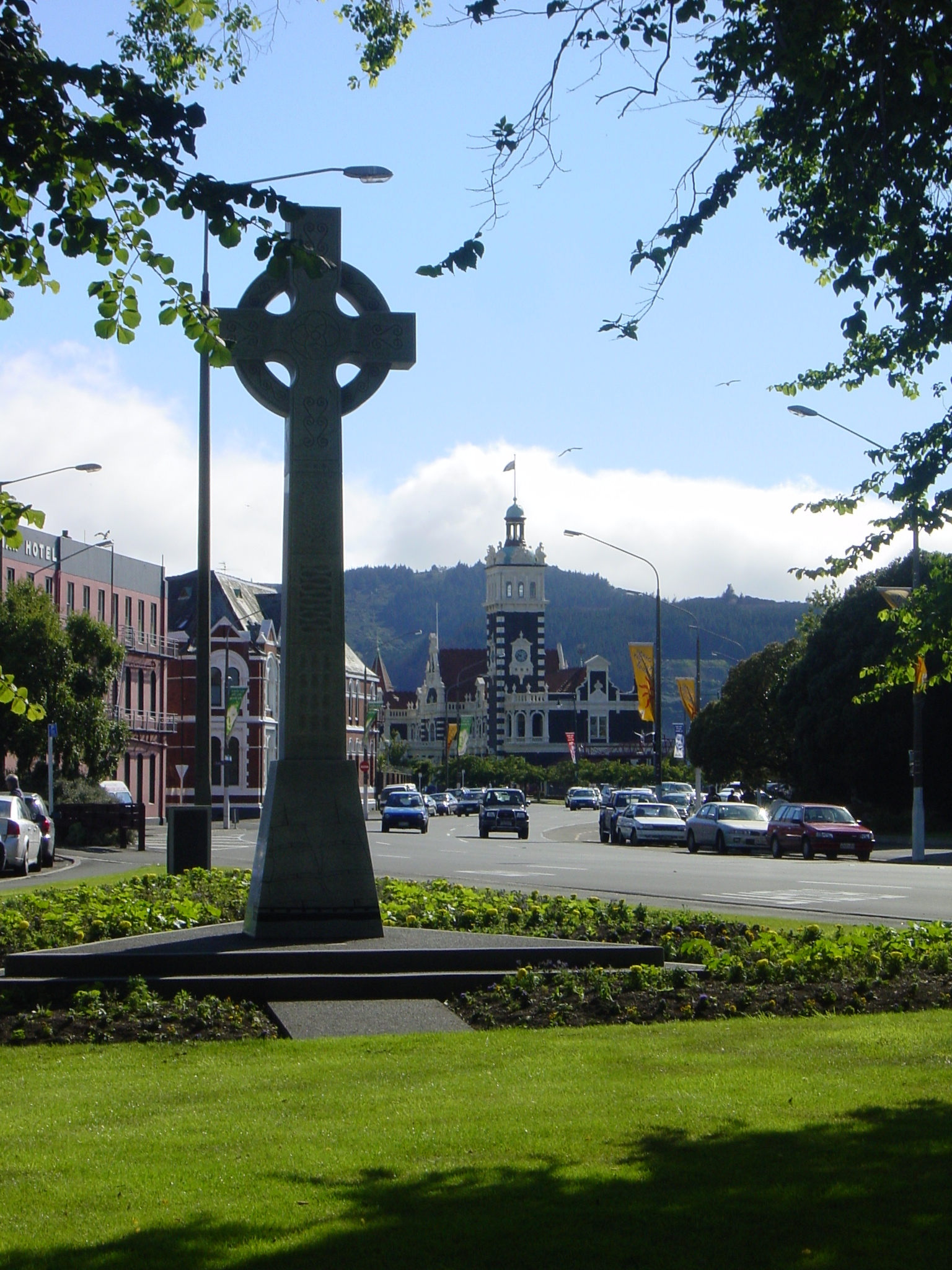 This view is from Queens Gardens.